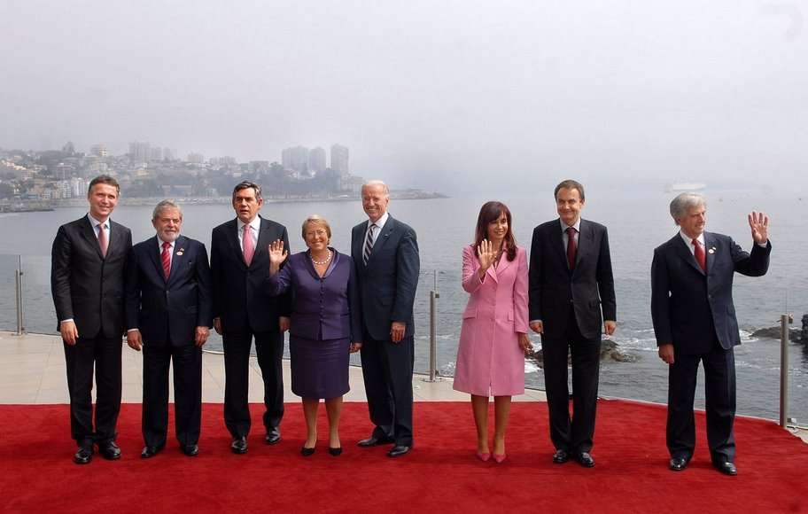 World leaders attending the Progressive Governance Conference 2009 in Chile.